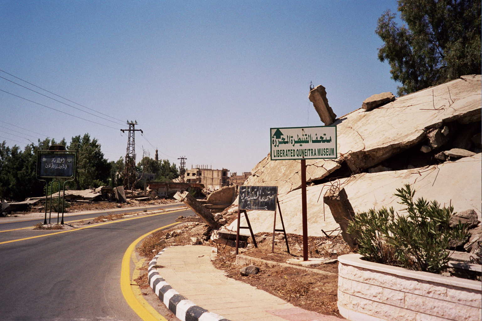 Quneitra is the only town the the golan heights that the syrians still control. the israelis captured the town, then withdrew as part of a u.s.-brokered cease-fire agreement. the town is now a UN-patroled ghost-town, and used as a monument to israeli atrocities by the syrian government.